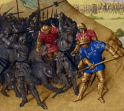 Henry I. of France